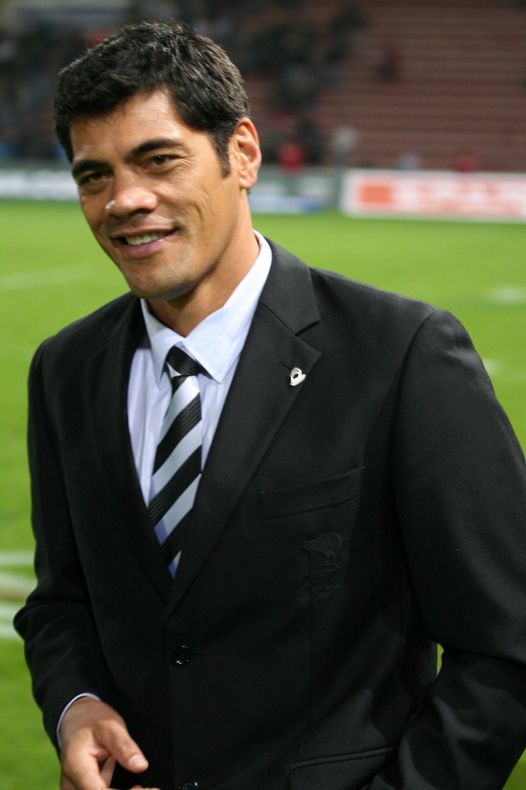 Stephen Kearney, New Zealand rugby league player.